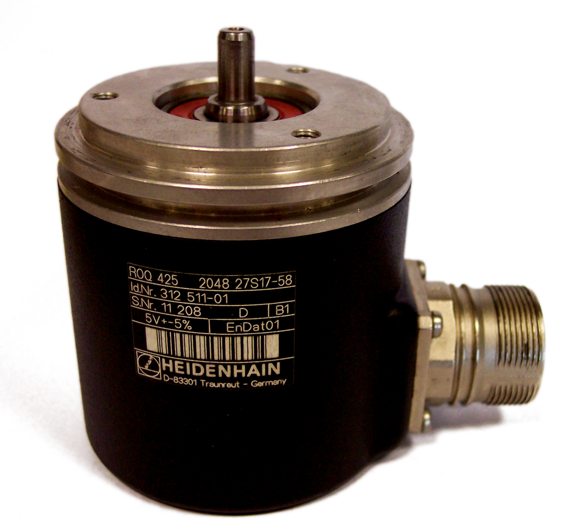 Absolute rotary encoder ROQ 425